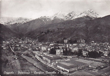 Coggiola, panorama postcard